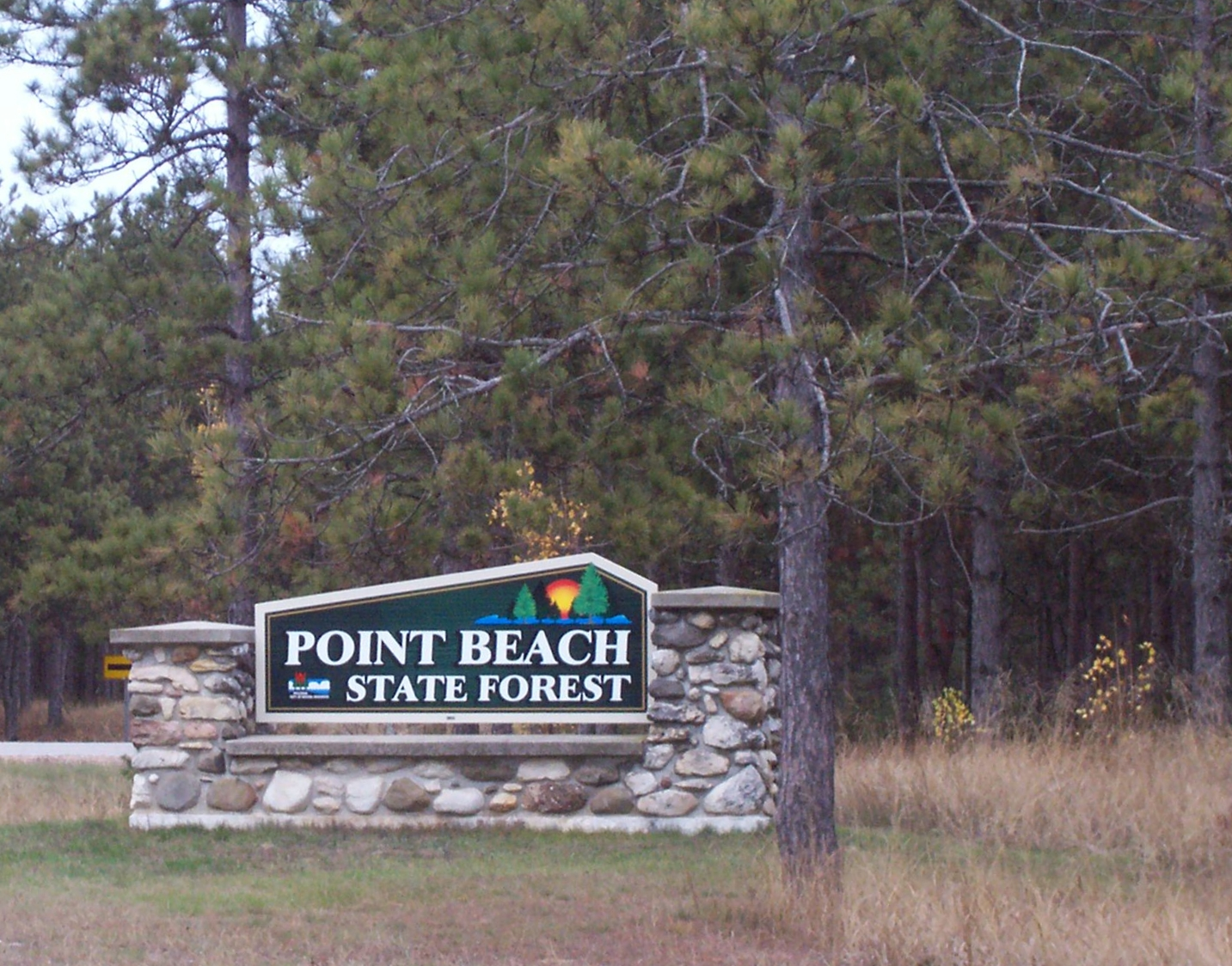 Looking at the sign for Point Beach State Forest just north of Two Rivers, Wisconsin.